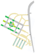 The Cheyenne Mountain nuclear bunker has main chambers (rectangular grid), a support area including 4 water reservoirs, and a north-south blast tunnel--all within the eastward spur of the Cheyenne Mountain massif. Along the blast tunnel are a turnaround area (to right) for shuttle buses, blast doors (left black interfaces to side tunnels) and other bulkheads (e.g., automatic air valves).